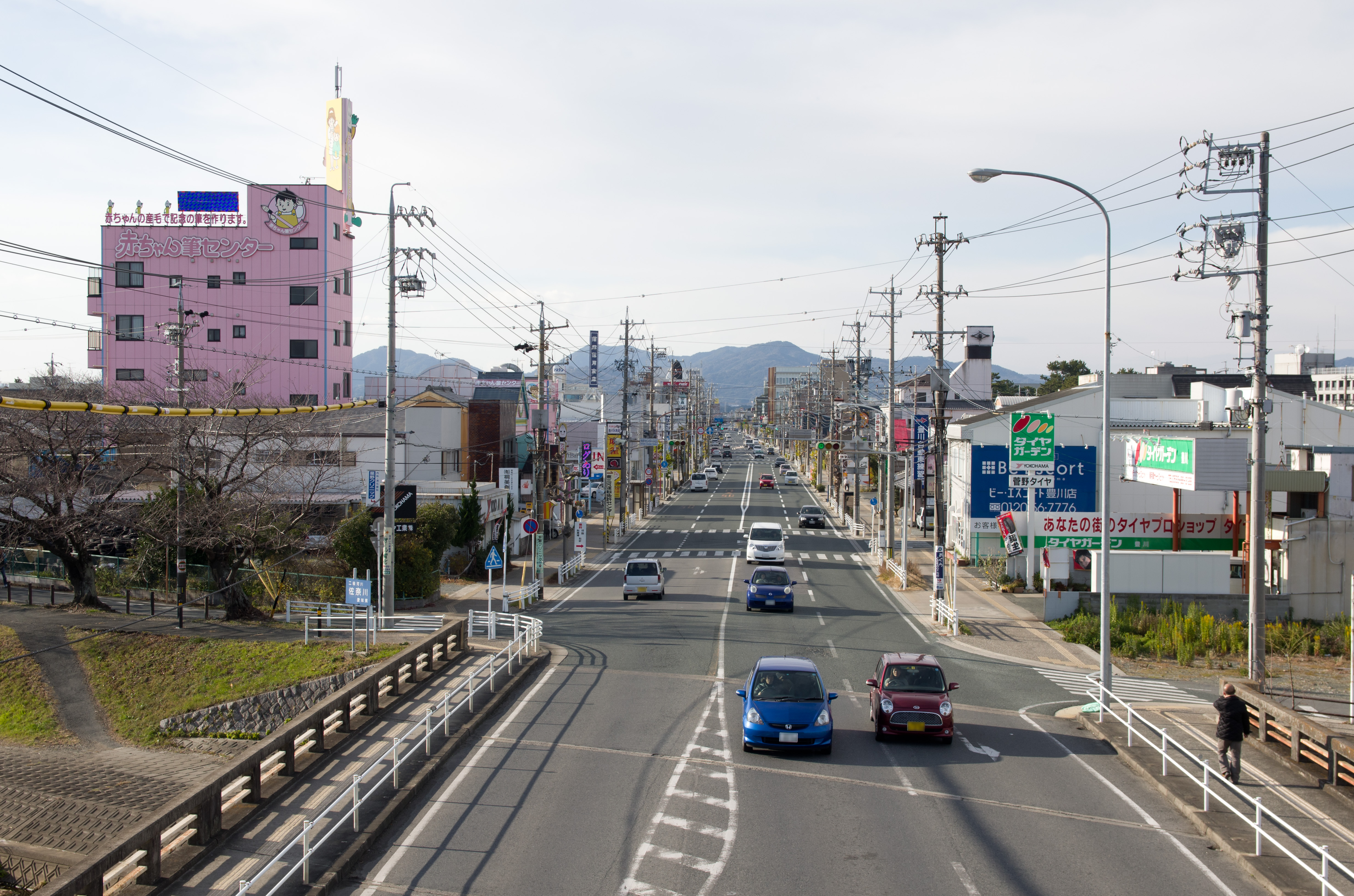 The Aichi Prefectural Road Route 5, taken on the Kanaya Bridge in Toyokawa, Aichi, Japan, facing to the west